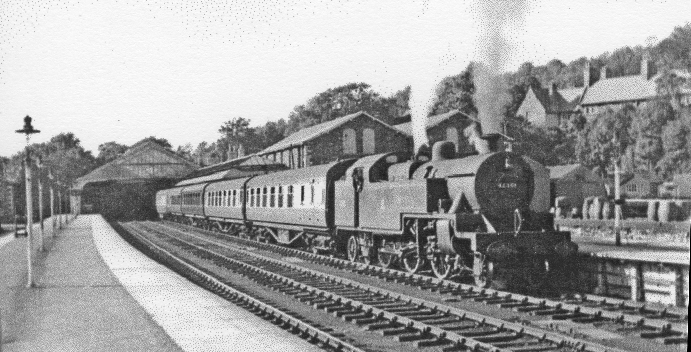 Windermere station, with train, 1951View towards buffer-stops, with a train for Morecambe via Oxenholme waiting, headed by LMS Fowler Class 4MT 2-6-4T No. 42301 (built 1927, withdrawn 10/63).